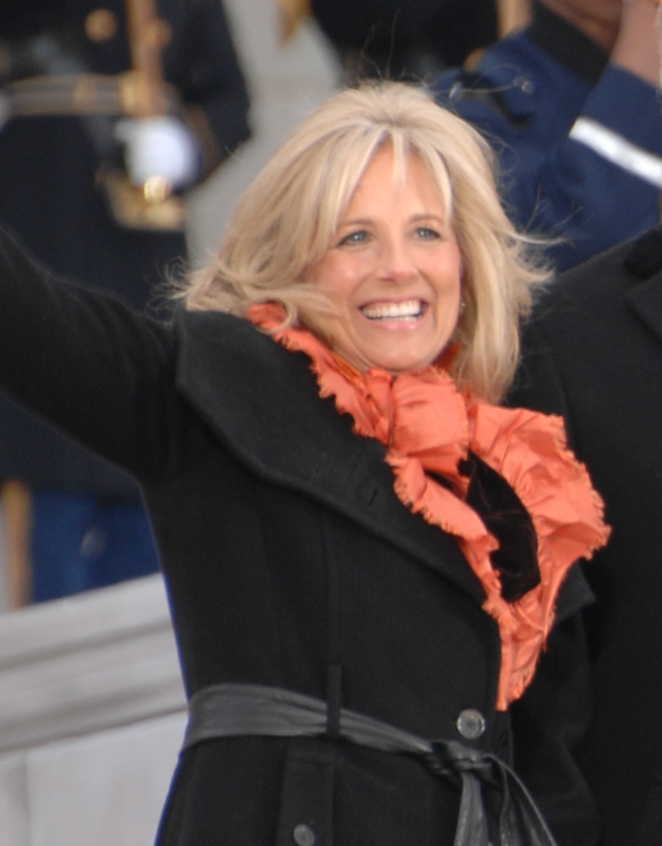 Jill Biden at the Lincoln Memorial on the National Mall in Washington, D.C., Jan. 18, 2009, during the inaugural opening ceremonies.